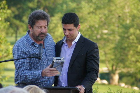 award